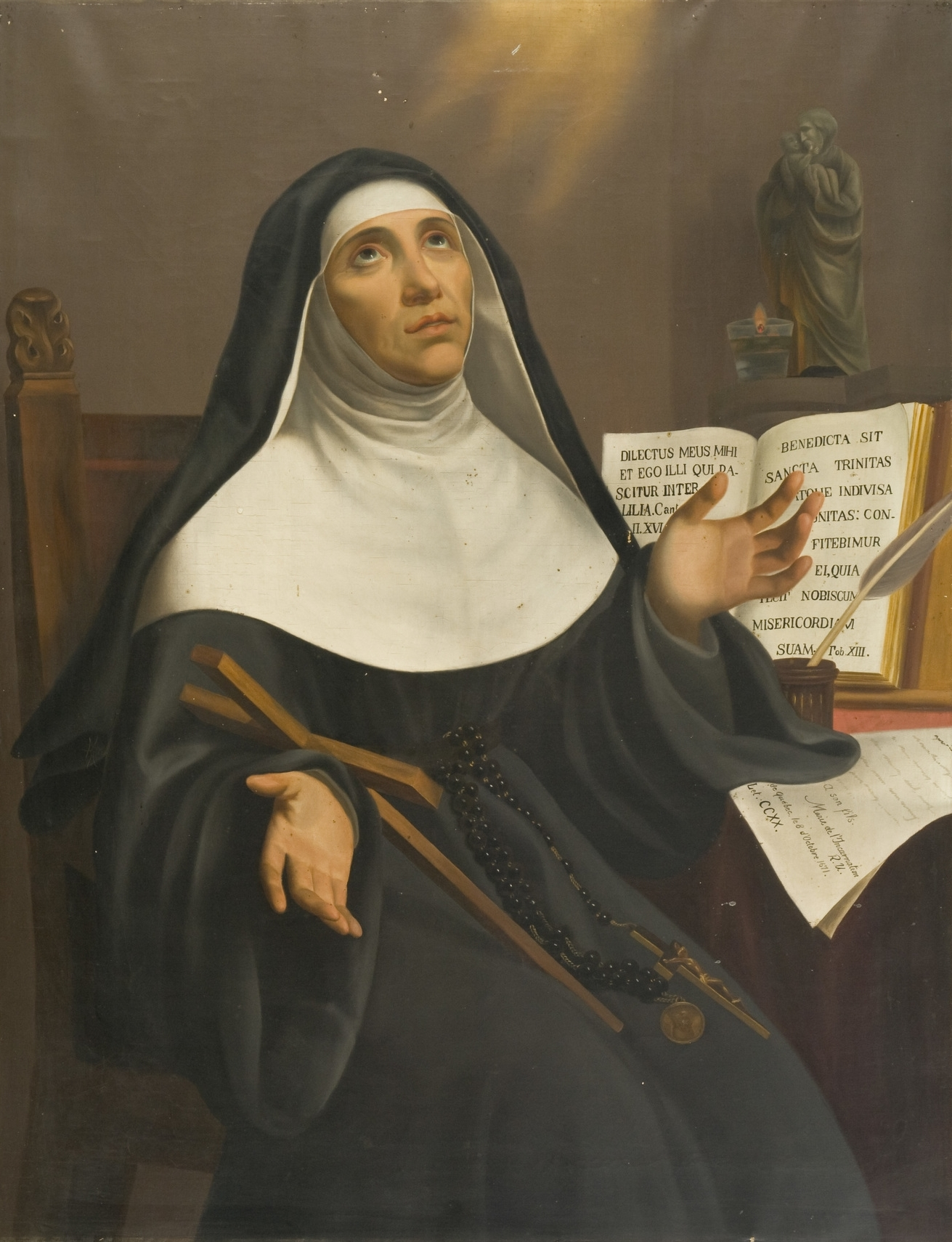 Saint Marie of the Incarnation